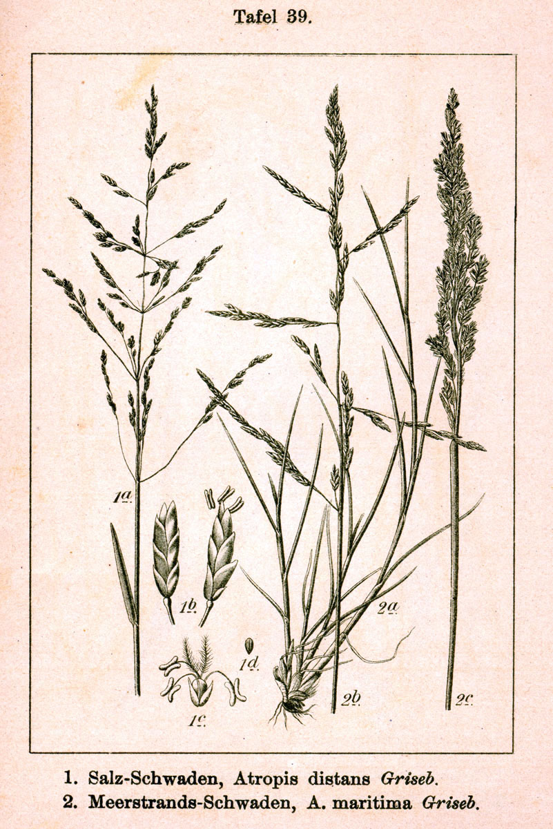 1: Puccinellia distans subsp. distans, syn. Atropis distans (Jacq.) Griseb. 2: Puccinellia maritima (Huds.) Parl., syn. Atropis maritima (Huds.) Griseb. Original Description 1. Salzschwaden, Atropis distans Griseb. 2. Meerstrands-Schwaden, Atropis maritima Griseb.